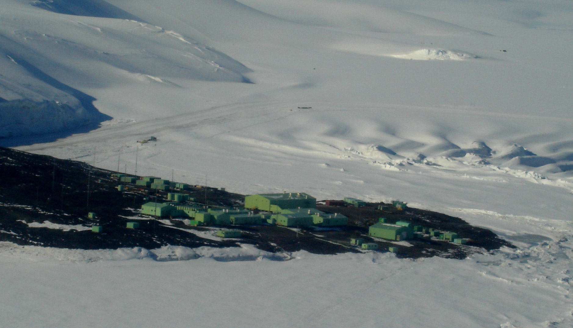 Aerial photograph of Scott Base, Ross Island, Antarctica, Jan 2006. Photograph by Andrew Mandemaker.